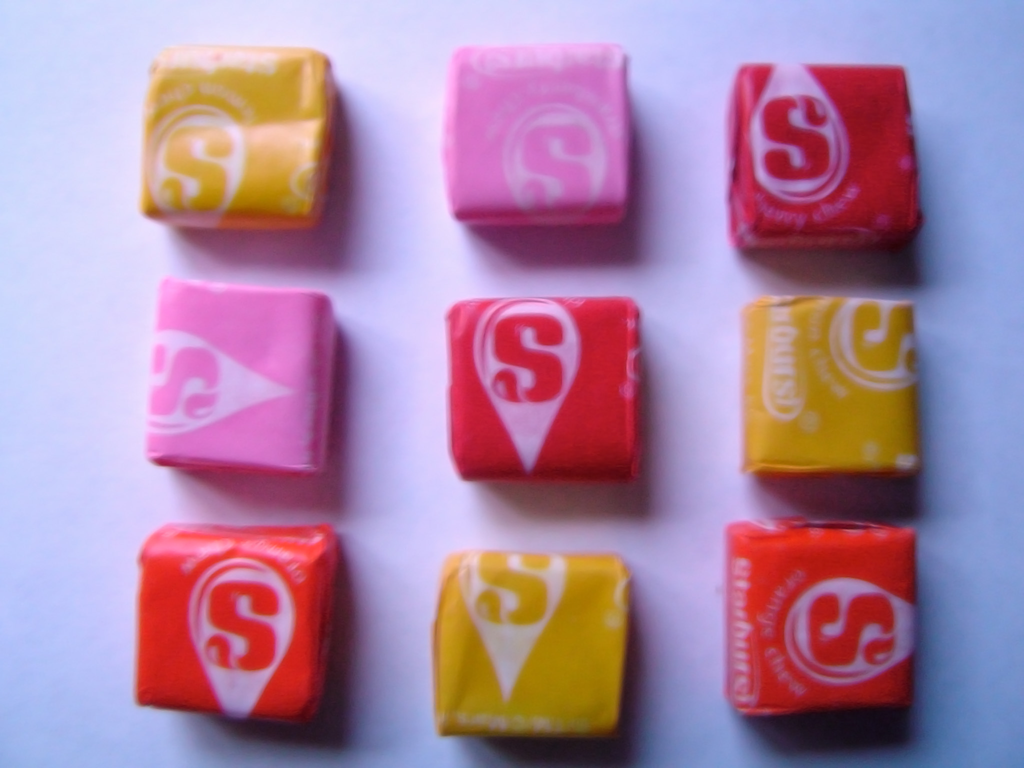 This is a picture of the candy found in a traditional pack of Starbursts. starburst found in pakages yeahhh yeahh